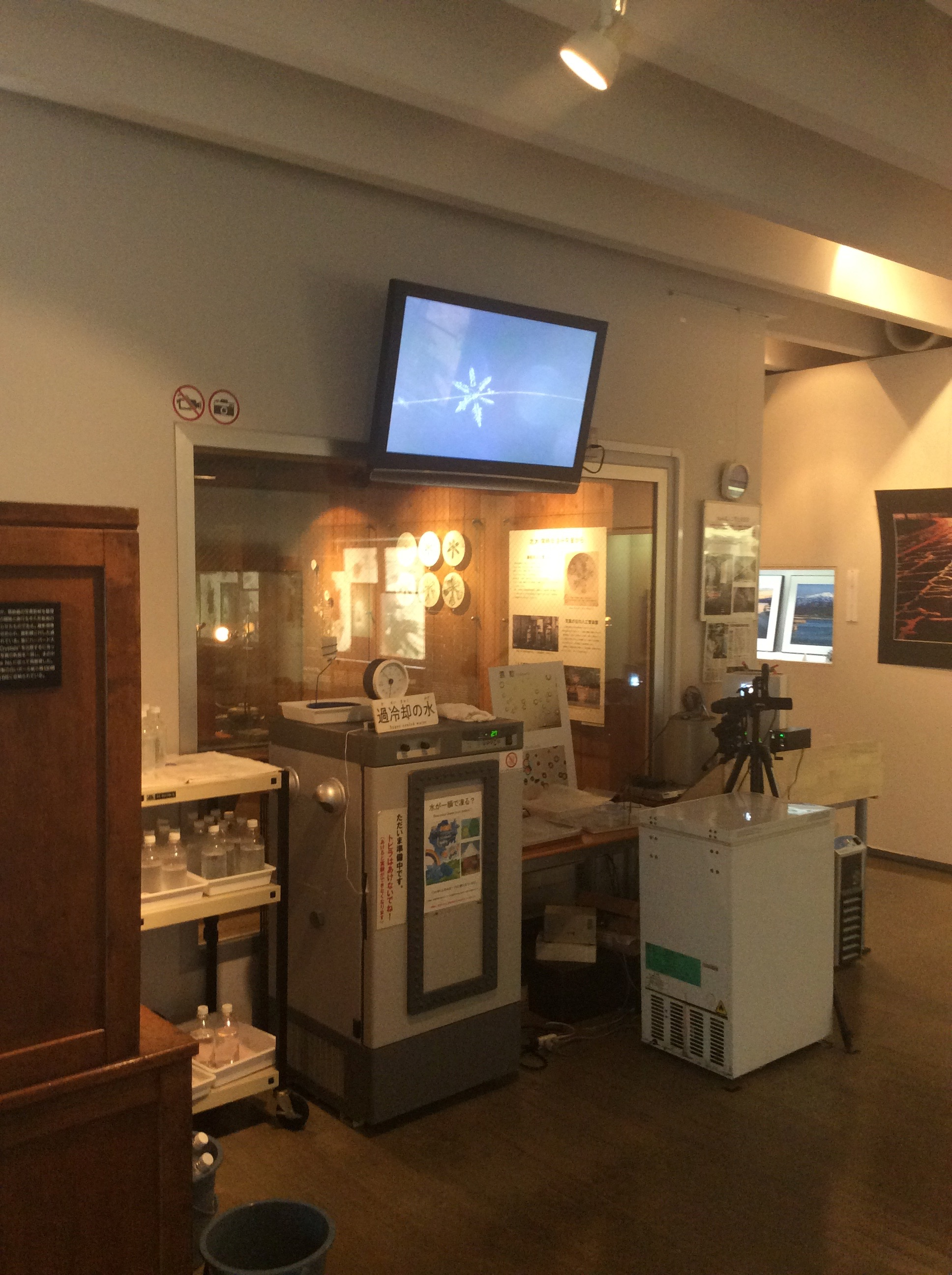 Nakaya Ukichiro Museum of Snow and Ice. Showing a reproduction of Nakaya's experiment of in vitro generation of snowflake. Photographed with permission.